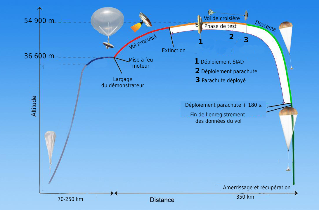 The saucer-shaped test vehicle for NASA's Low-Density Supersonic Decelerator (LDSD) will undergo a series of events in the skies above Hawaii, with the ultimate goal of testing future landing technologies for Mars missions. At the beginning of the flight test, the vehicle hangs from a tower in preparation for launch. The launch tower helps link the vehicle to its balloon. At T-minus 0, the vehicle and balloon are released from the tower and begin a slow ascent to an altitude of 120,000 feet (36,600 meters), where the vehicle is released from the balloon. The float to drop altitude is expected to take slightly less than three hours. After being released from the balloon, the vehicle's rocket kicks in and quickly takes the craft to an altitude of 180,000 feet (54,900 meters) -- the top of the stratosphere -- where the supersonic test begins. Small solid-fuel rocket motors spin the test vehicle for stability ahead of the main motor ignition. Upon reaching its maximum altitude, the test vehicle is traveling at approximately Mach 4. The test vehicle will then deploy the Supersonic Inflatable Aerodynamic Decelerator (SIAD), which decelerates the test vehicle to approximately Mach 2.5. The test vehicle will deploy a mammoth parachute (the Supersonic Disk Sail Parachute), which carries it safely to a controlled water impact about 40 minutes after being dropped from the balloon. Following the flight test, both the balloon envelope and test vehicle will be recovered. The Low-Density Supersonic Decelerator Project is managed by JPL for NASA's Space Technology Mission Directorate in Washington.